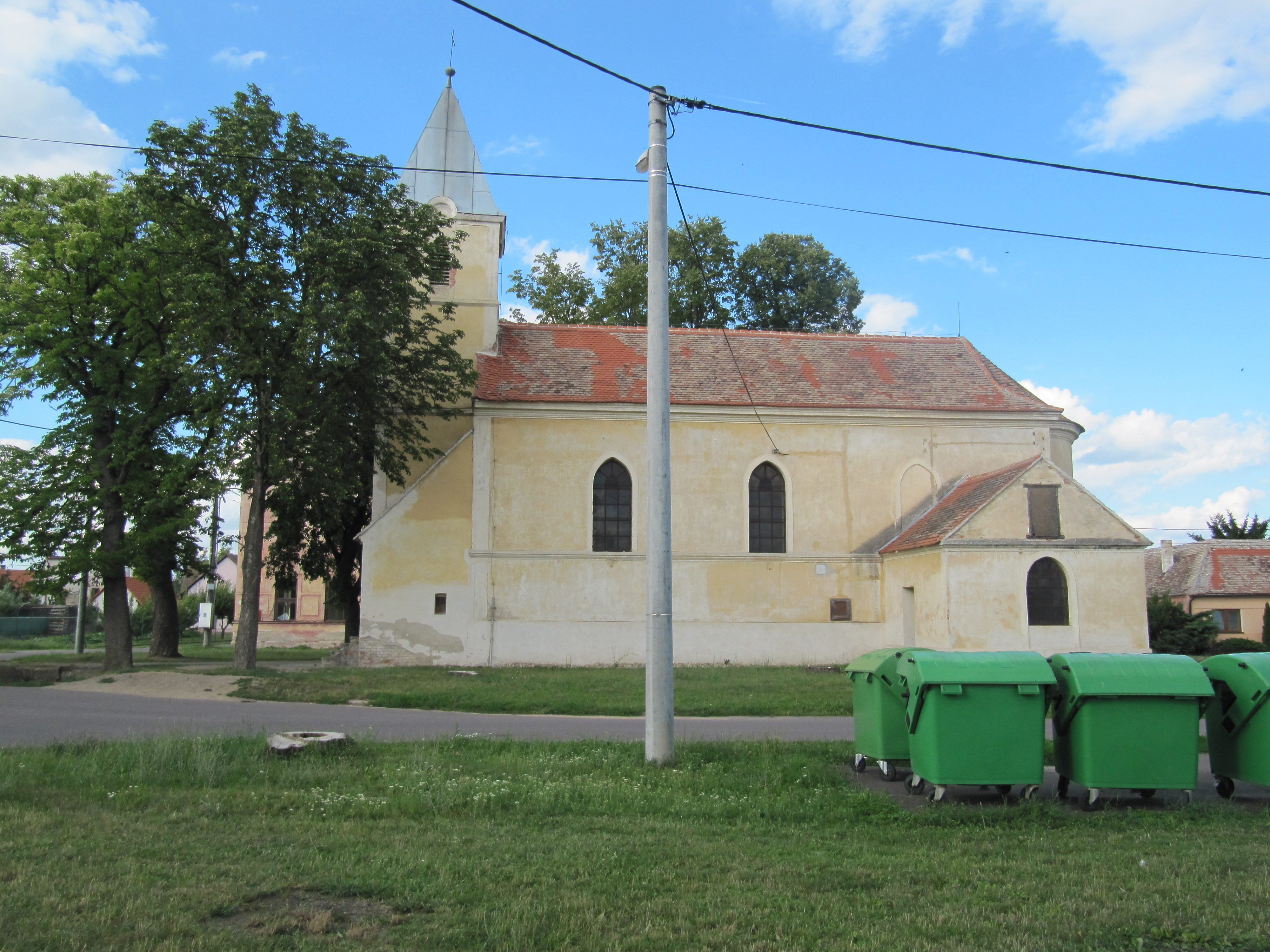 Strachotice in Znojmo District, Czech Republic, part Micmanice. Chapel of the Holy Angels from 1895.